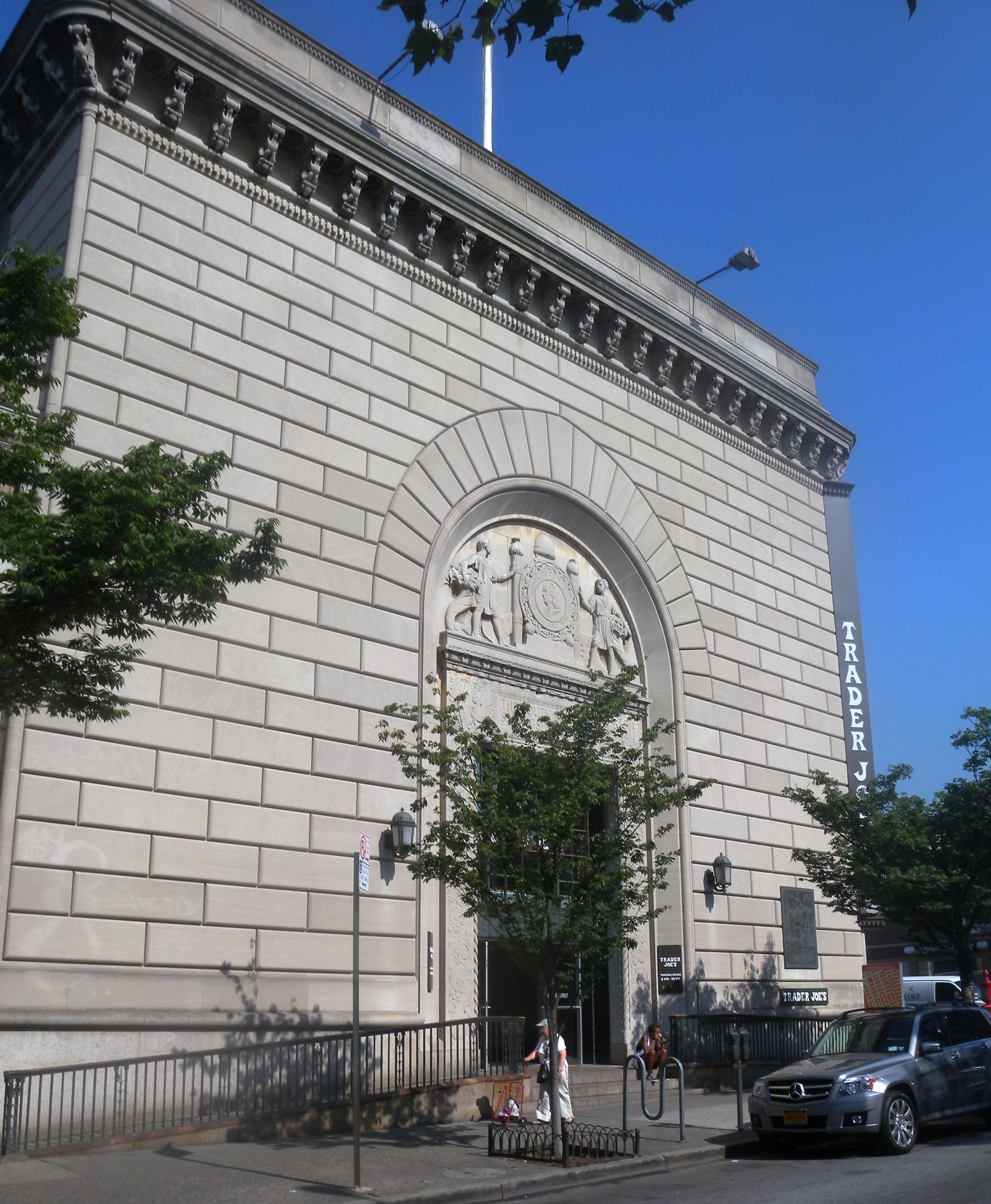 Looking north across Court Street at former bank building on a sunny morning.